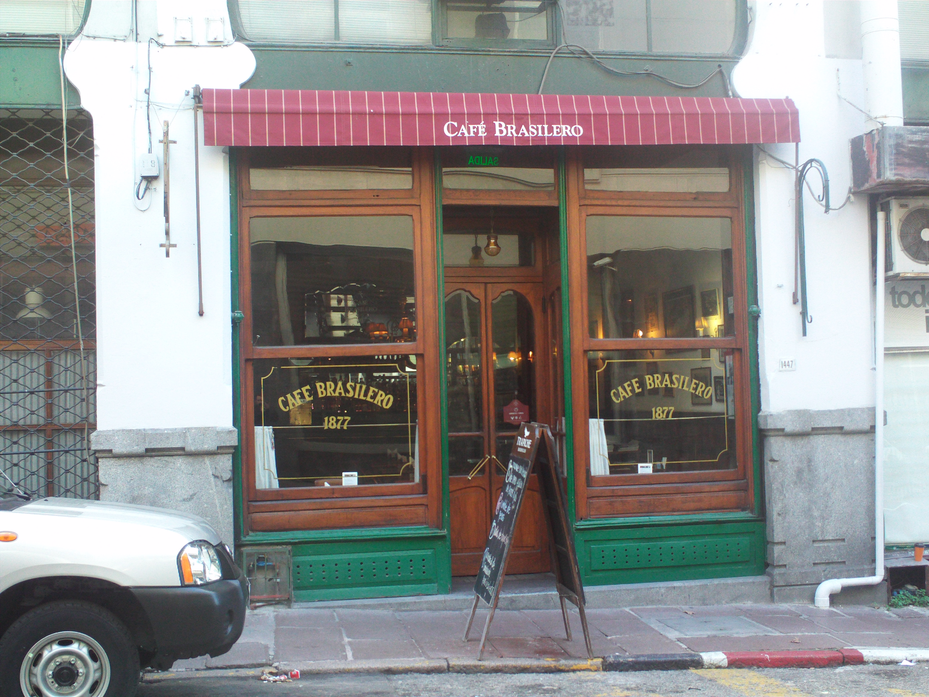 Cafe Brasilero, in Montevideo's Old town since 1877.